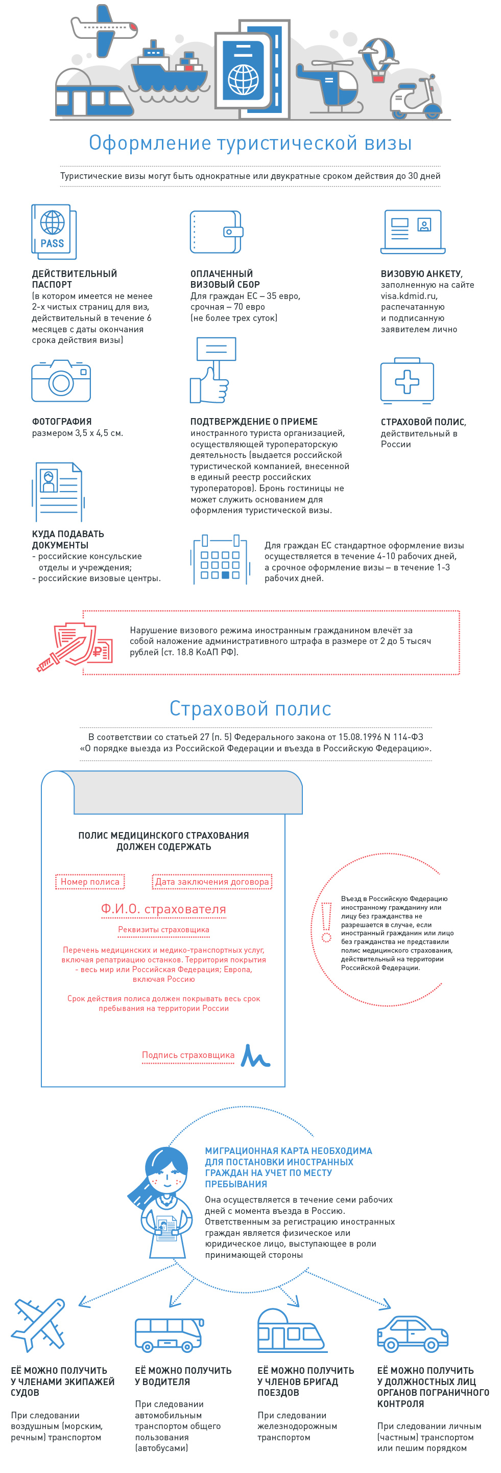 Visa policy of Russia